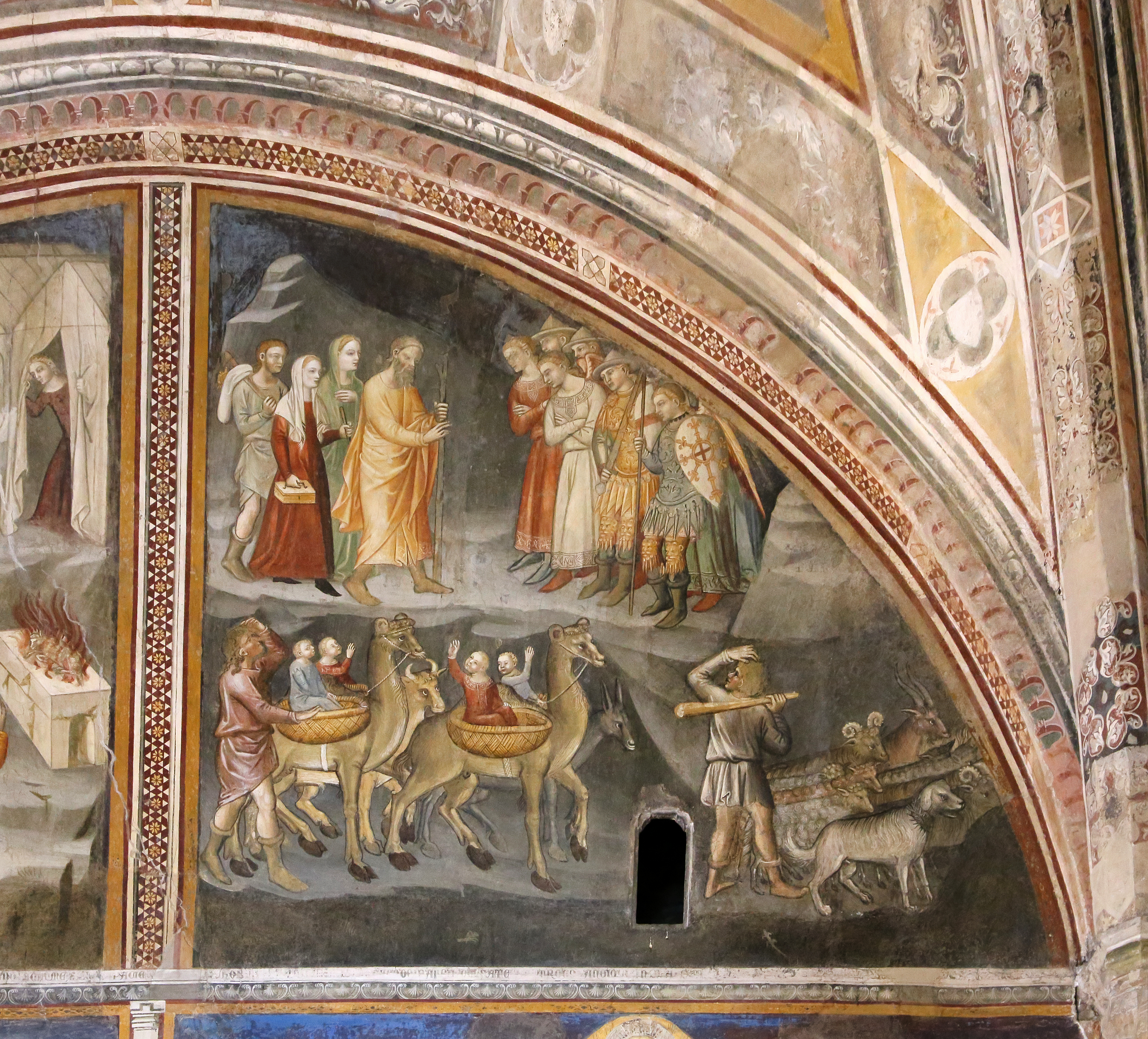 Sant'Antonio Abate del Tau (Pistoia) - Interior - Frescos